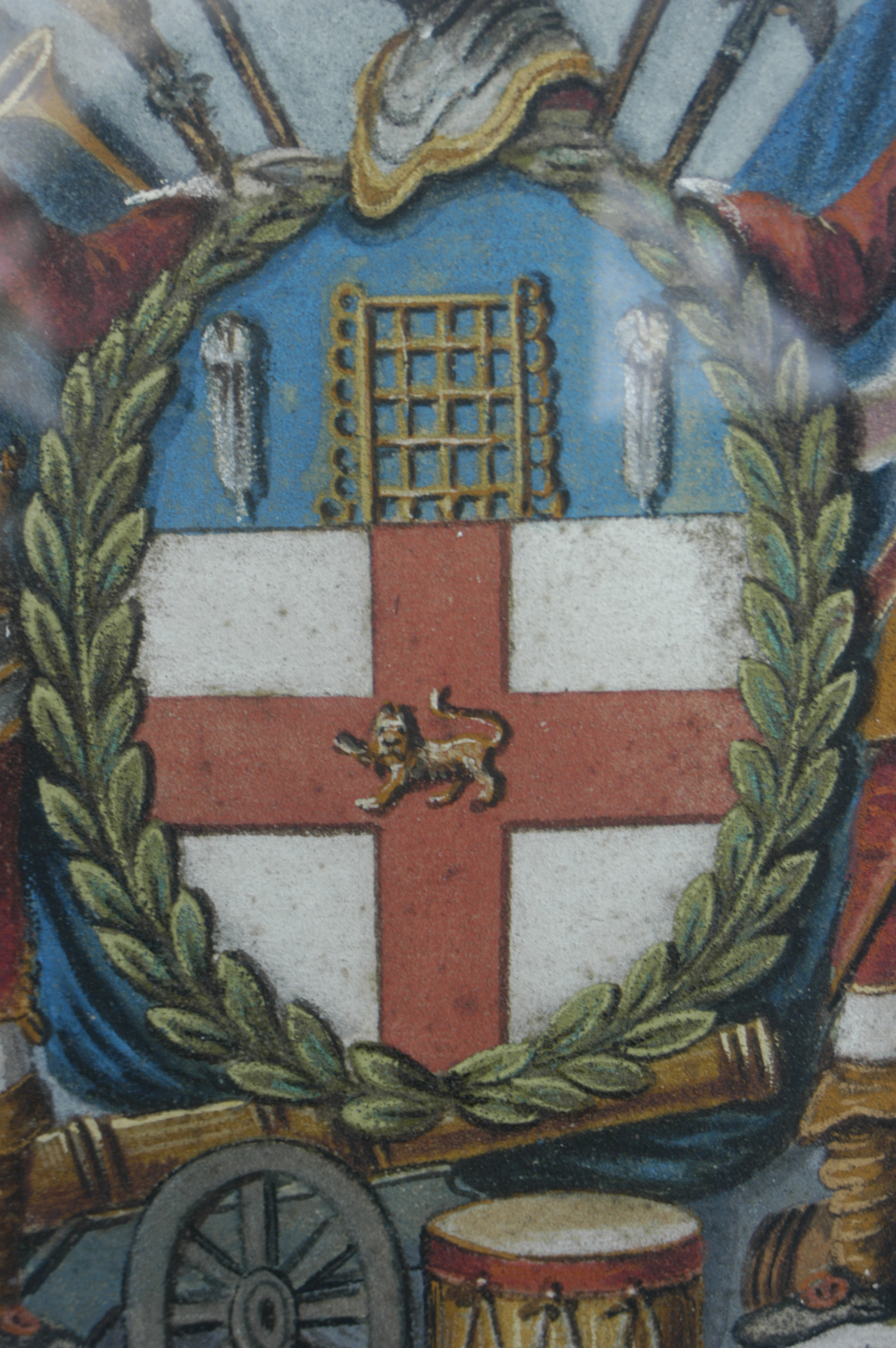 My photo (R. de Salis Rodolph (talk) 01:28, 5 March 2014 (UTC))of shield of the Honourable Artillery Company, in sand, C19th. Detail of full heraldic achievement.